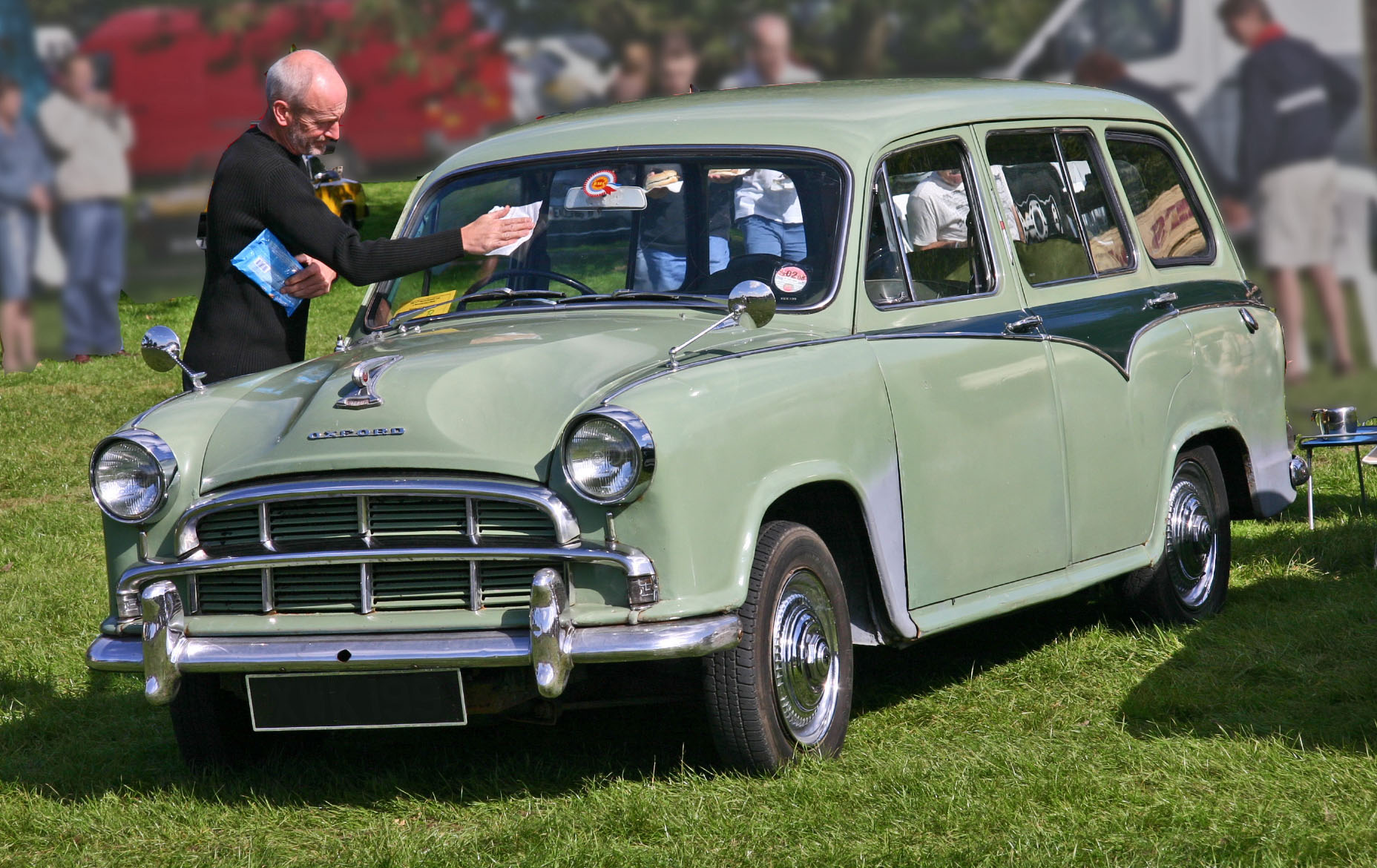 Morris Oxford Series IV. Powered by the same 1489cc B series engine (actually an Austin engine) as the Oxford Series II and Series III, the Series IV continued in production until 1960.